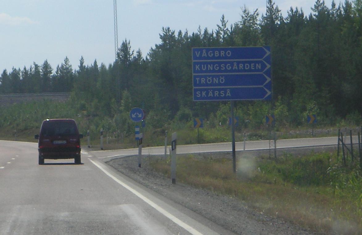 Road E4 between Enånger and Söderhamn, Sweden.